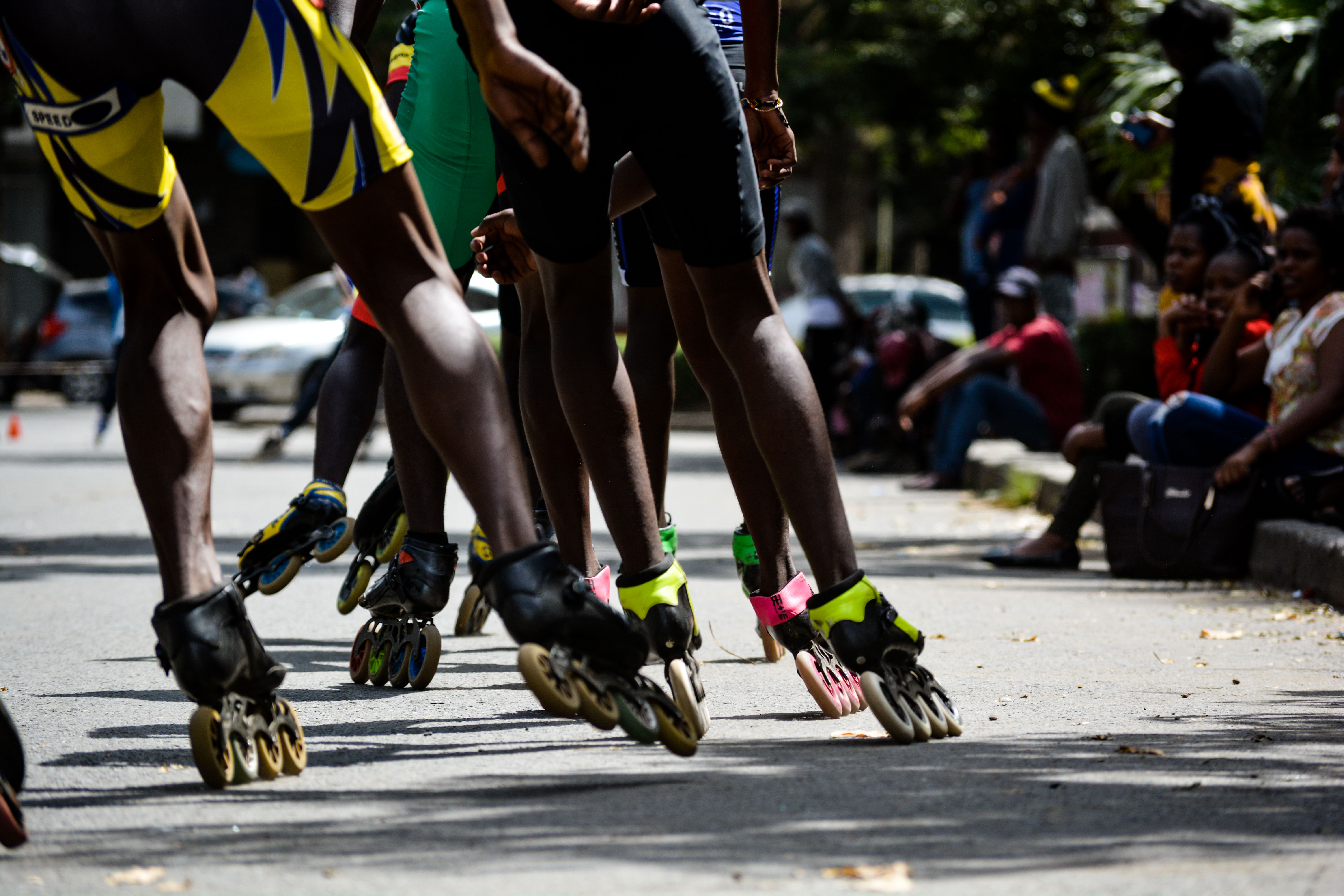 Roller skaters in Nakuru town doing their skating drills at parking lot on Sunday This is an image with the theme "Africa on the Move or Transport" from: Kenya